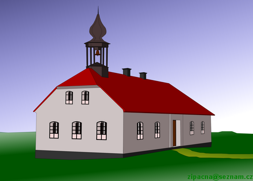 Újezd (Aš/Krásná), destroyed school